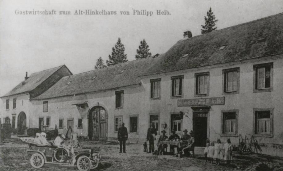 Althinkelhaus Thomm